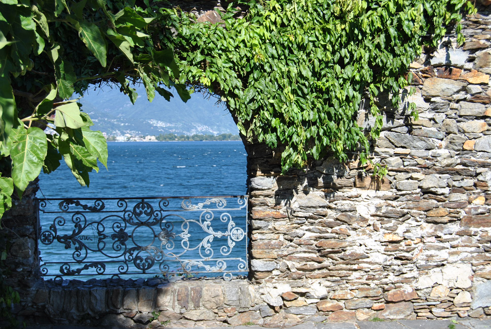 Botanical park on the Isole di Brissago near Brissago, Ticino, Switzerland